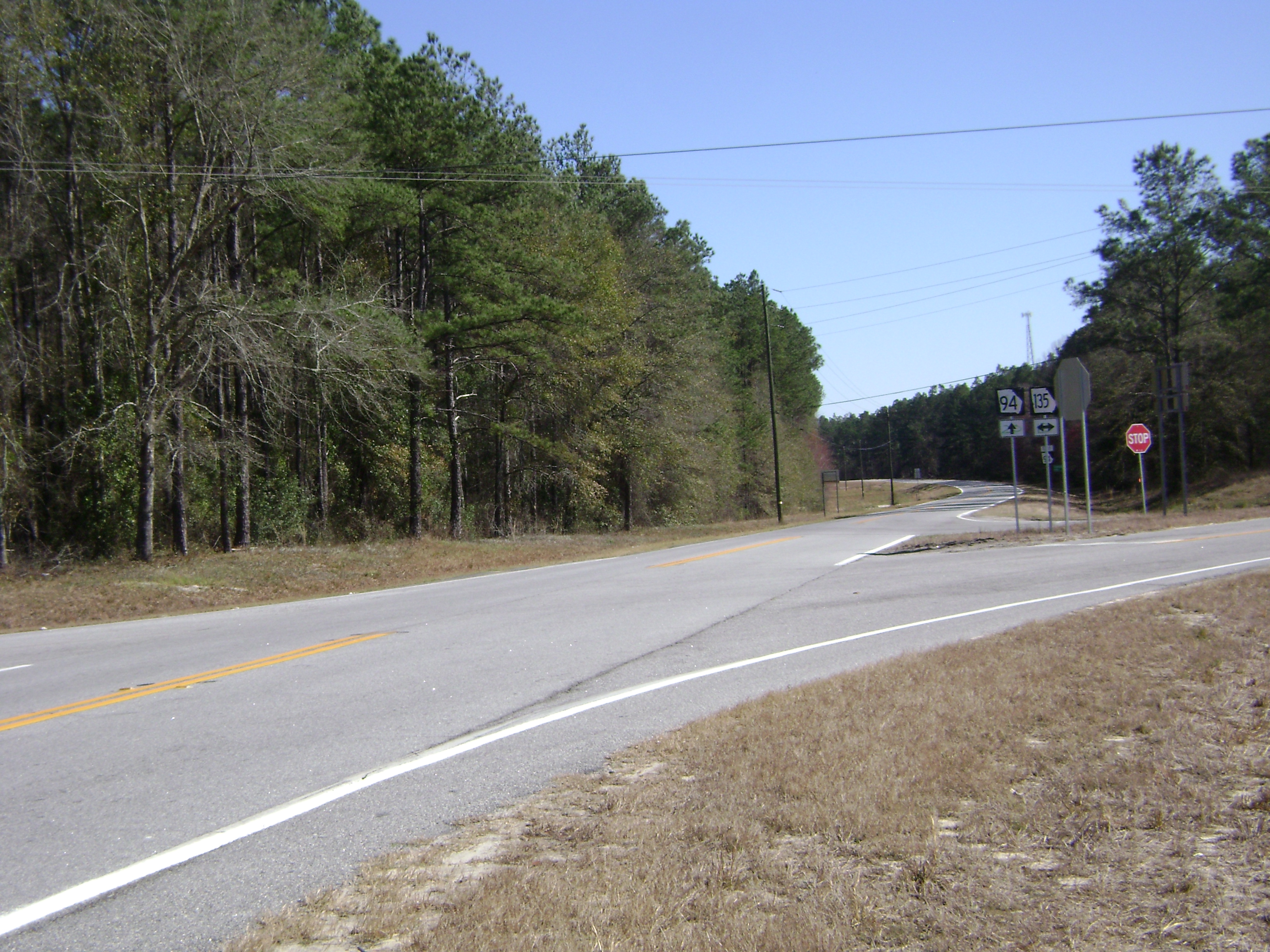 Photo taken on GA SR 94 looking at intersection of GA SR 135. SR 135 runs North - South. SR 94 continues East. Echols County, Georgia